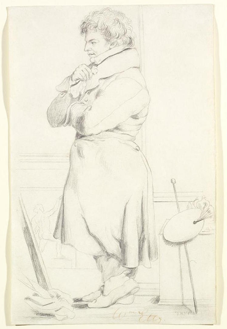 Pencil drawing of an artist (William Etty) at work.